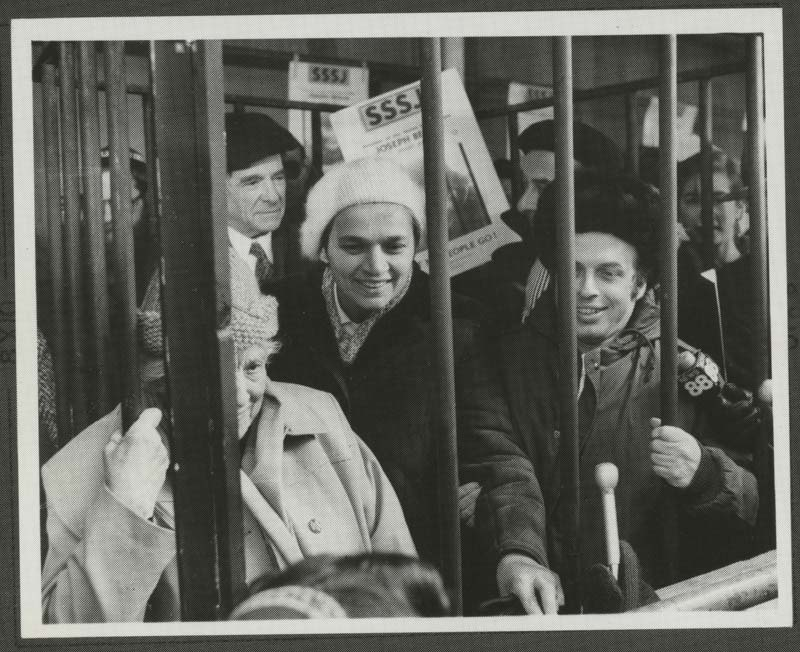 Photographer: unknown Date: undated Medium: black and white photograph Repository: American Jewish Historical Society Parent Collection: National Conference on Soviet Jewry (I-181A) Link to Digital Object: Call number: aa-i181a-b362-f001-001 The photograph was originally found in Box 362, Folder 1 of the Records of National Conference on Soviet Jewry (I-181A). See more information about this image and the collection by viewing the finding aid: Guide to the Records of National Conference on Soviet Jewry. Rights Information: No known copyright restrictions; may be subject to third party rights. For more copyright information, click here. To inquire about rights and permissions, or if you have a question regarding the collection to which the image belongs, please contact the Reference Department of the American Jewish Historical Society by email. Digital images created by the Gruss Lipper Digital Laboratory at the Center for Jewish History. Digitization of select American Soviet Jewry Movement material has been made possible through a generous grant from the National Historical Publications and Records Commission (NHPRC).